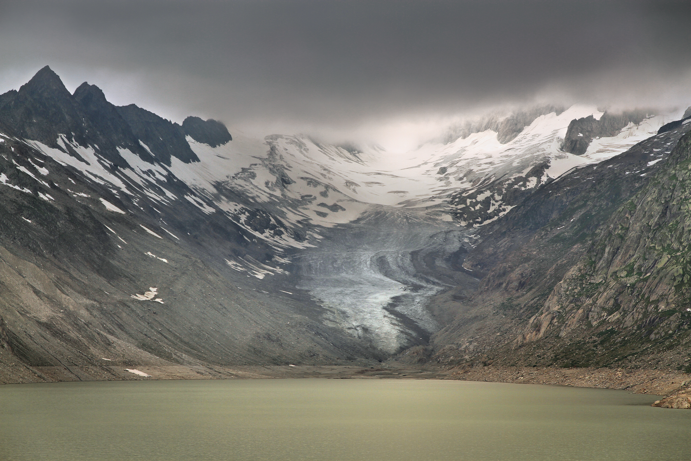 Oberaargletscher as seen from Oberaar, Bern, Switzerland in July 2010.